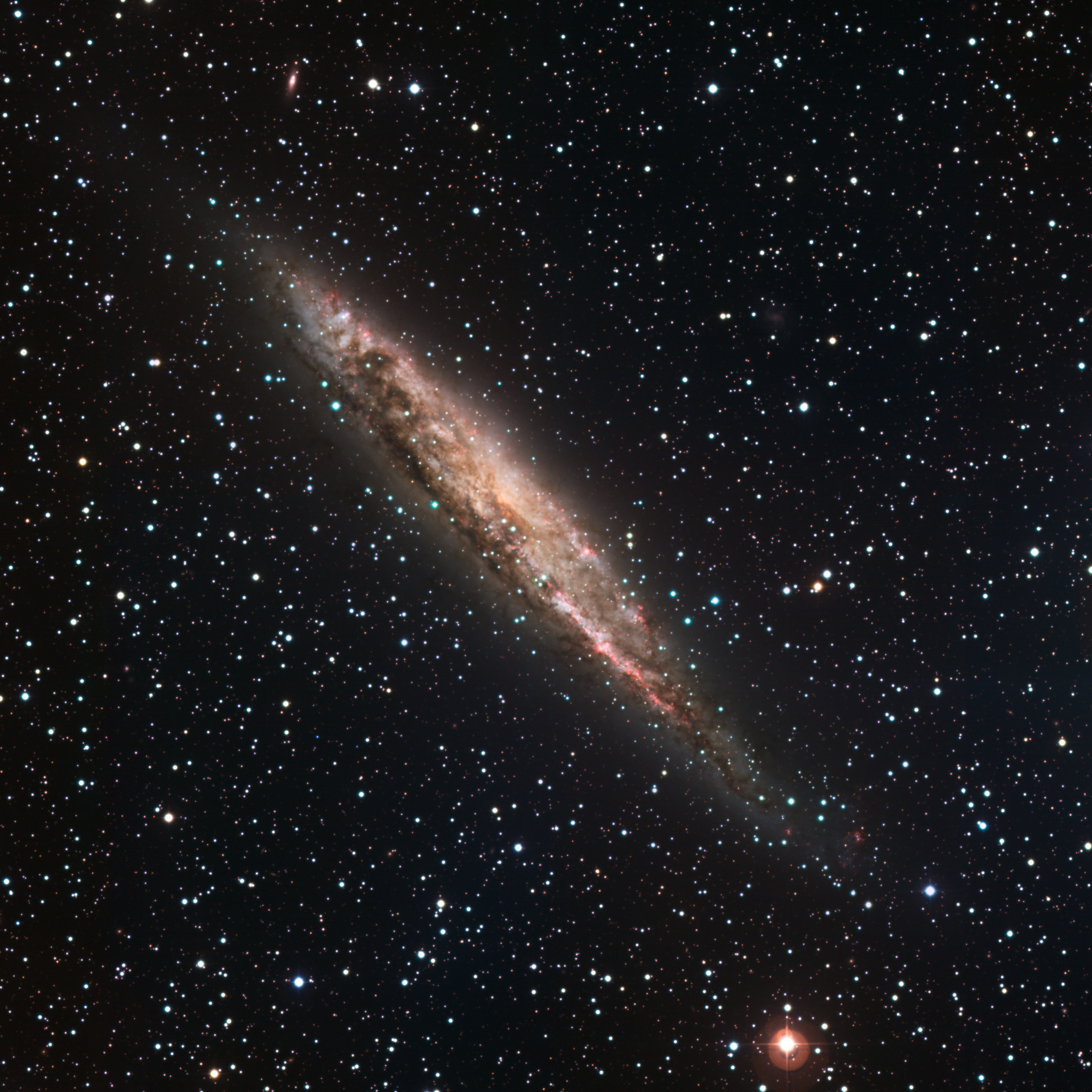 Seen edge-on, observations of NGC 4945 suggest that this hive of stars is a spiral galaxy much like our own Milky Way, with swirling, luminous arms and a bar-shaped centre. Sites of active star formation, known as HII regions, are seen prominently in the image, appearing bright pink. These resemblances aside, NGC 4945 has a brighter centre that likely harbours a supermassive black hole, which is devouring reams of matter and blasting energy out into space. NGC 4945 is about 13 million light-years away in the constellation of Centaurus (the Centaur) and is beautifully revealed in this image taken with data in five bands (B, V, R, H-alpha and S II) with the 2.2-metre MPG/ESO telescope at La Silla. The field of view is 30 x 30 arcminutes. North is up, East is to the left.